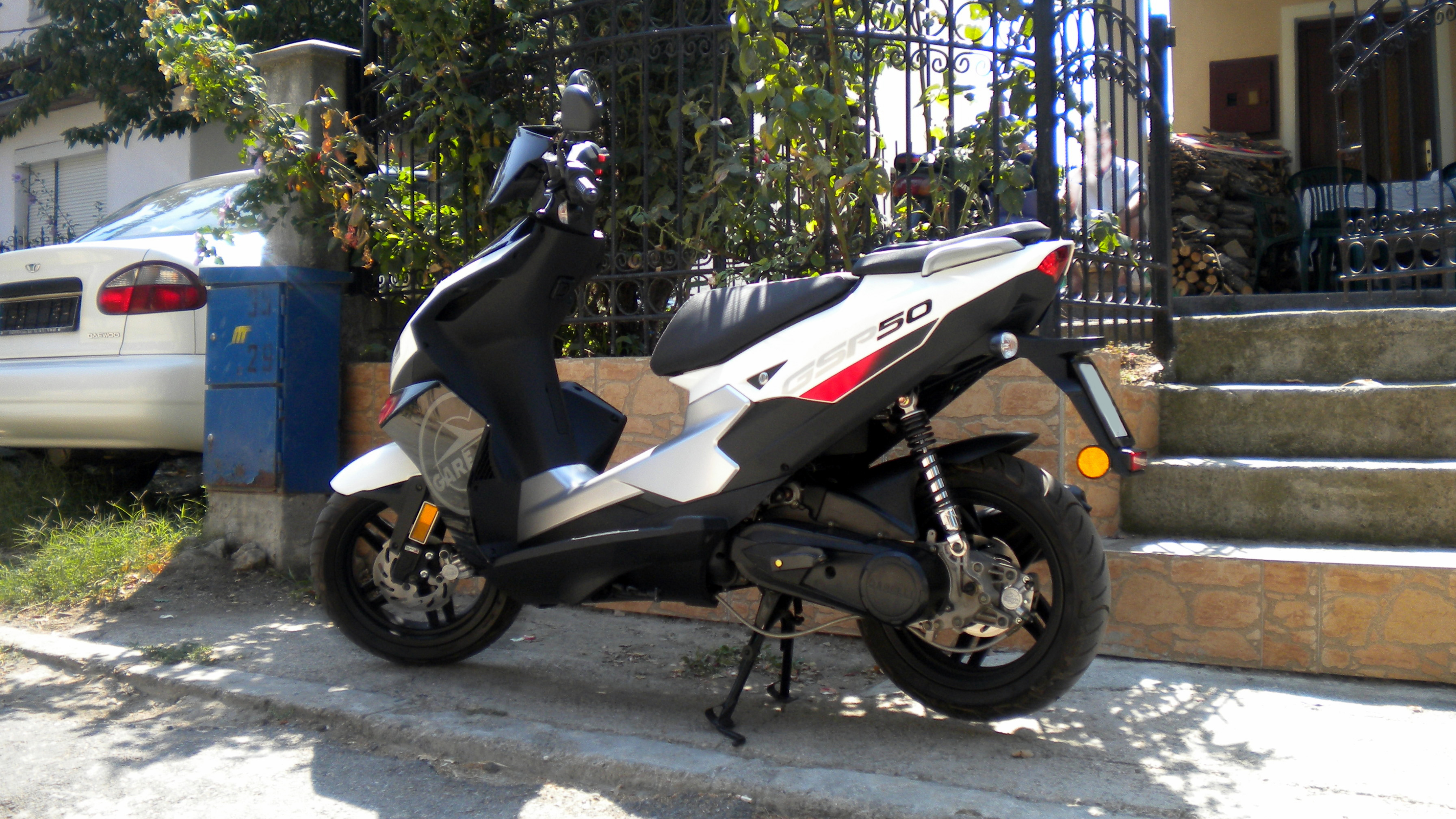 Gsp 50